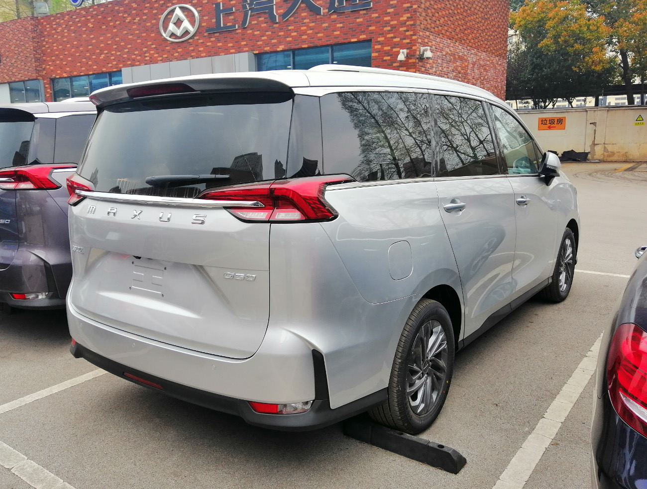 Maxus G50 photographed in Shanghai, China.